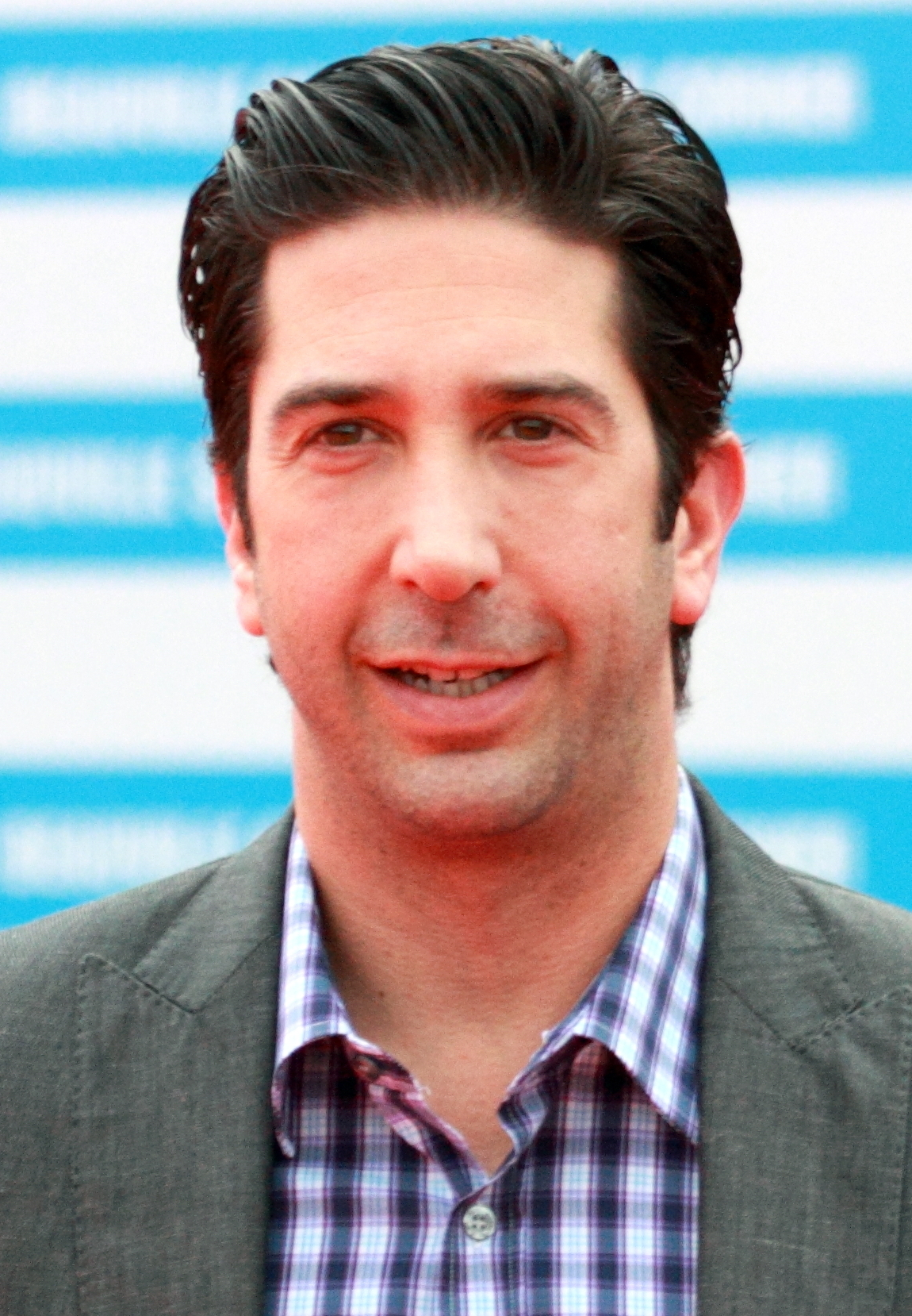 David Schwimmer at the Festival Du Cinema Americain De Deauville 2011.